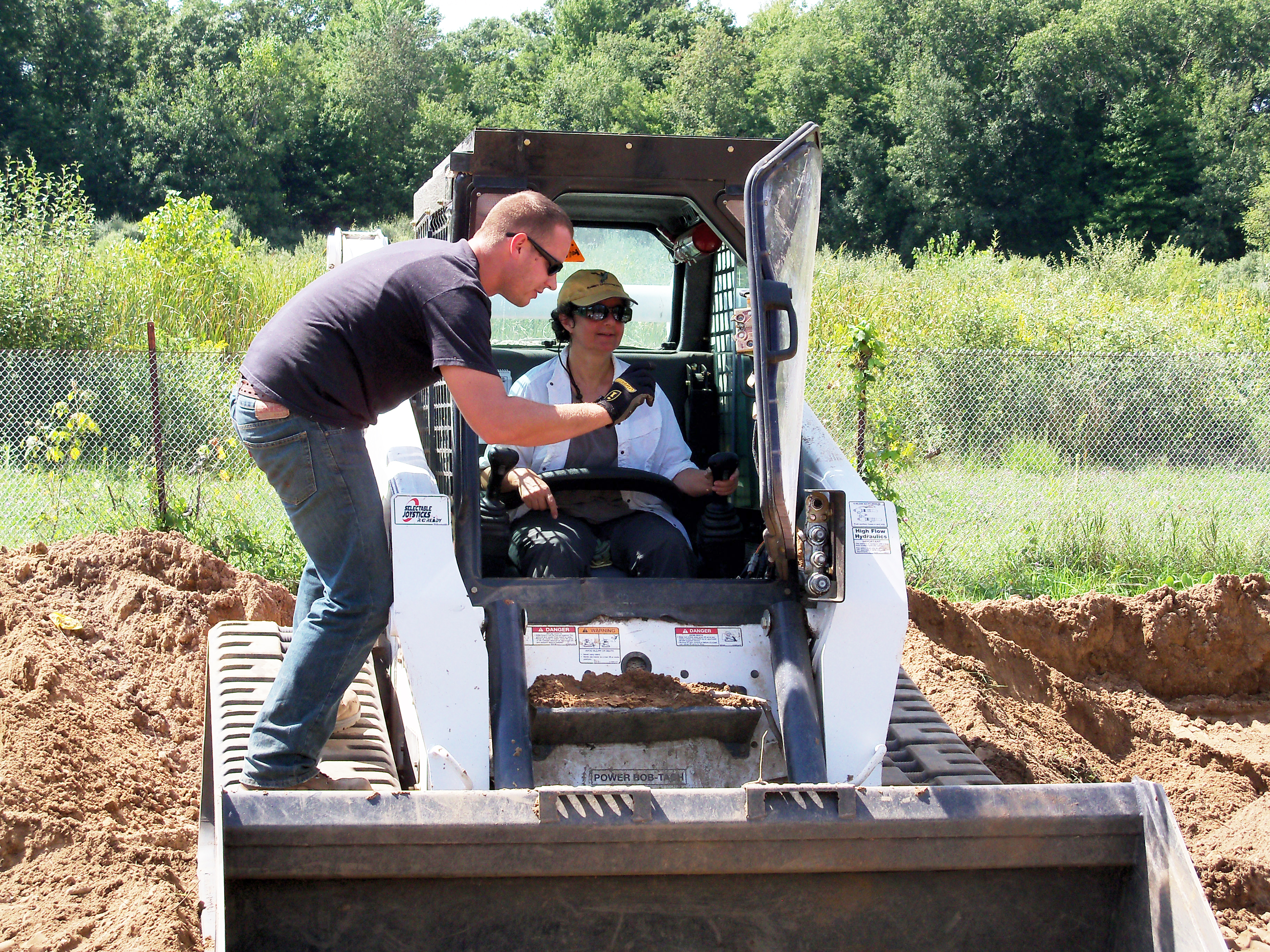 Deborah Goldberg engaged in field work driving a Bobcat, with someone assisting her, standing to the side